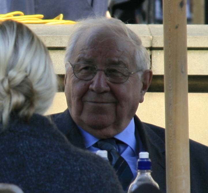 John Sandon (2nd left) and Henry Sandon (right)